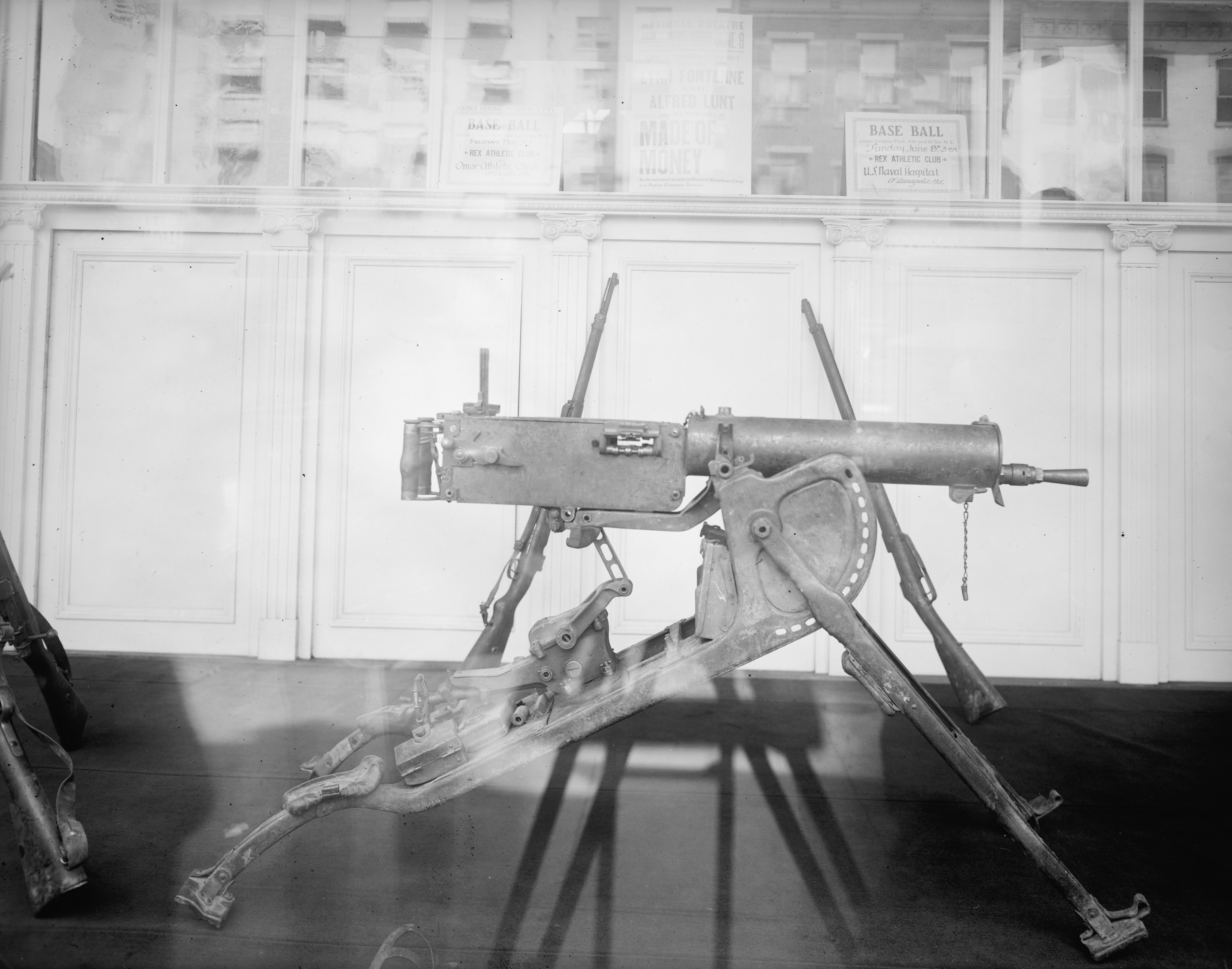 Captured German MG 08 machine gun